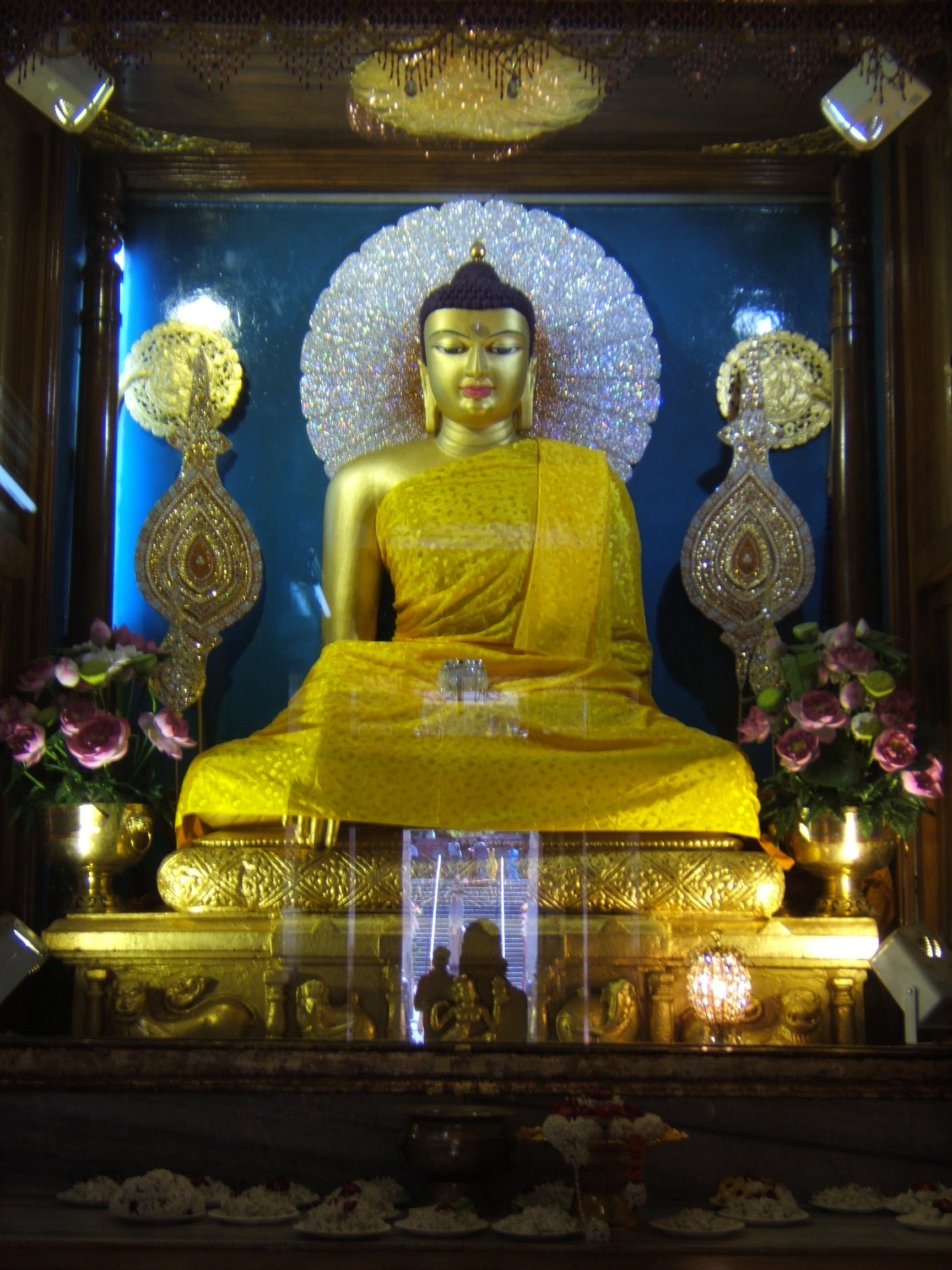 Deity of Lord Buddha in Mahabodhi Temple, Boddh Gaya, Bihar